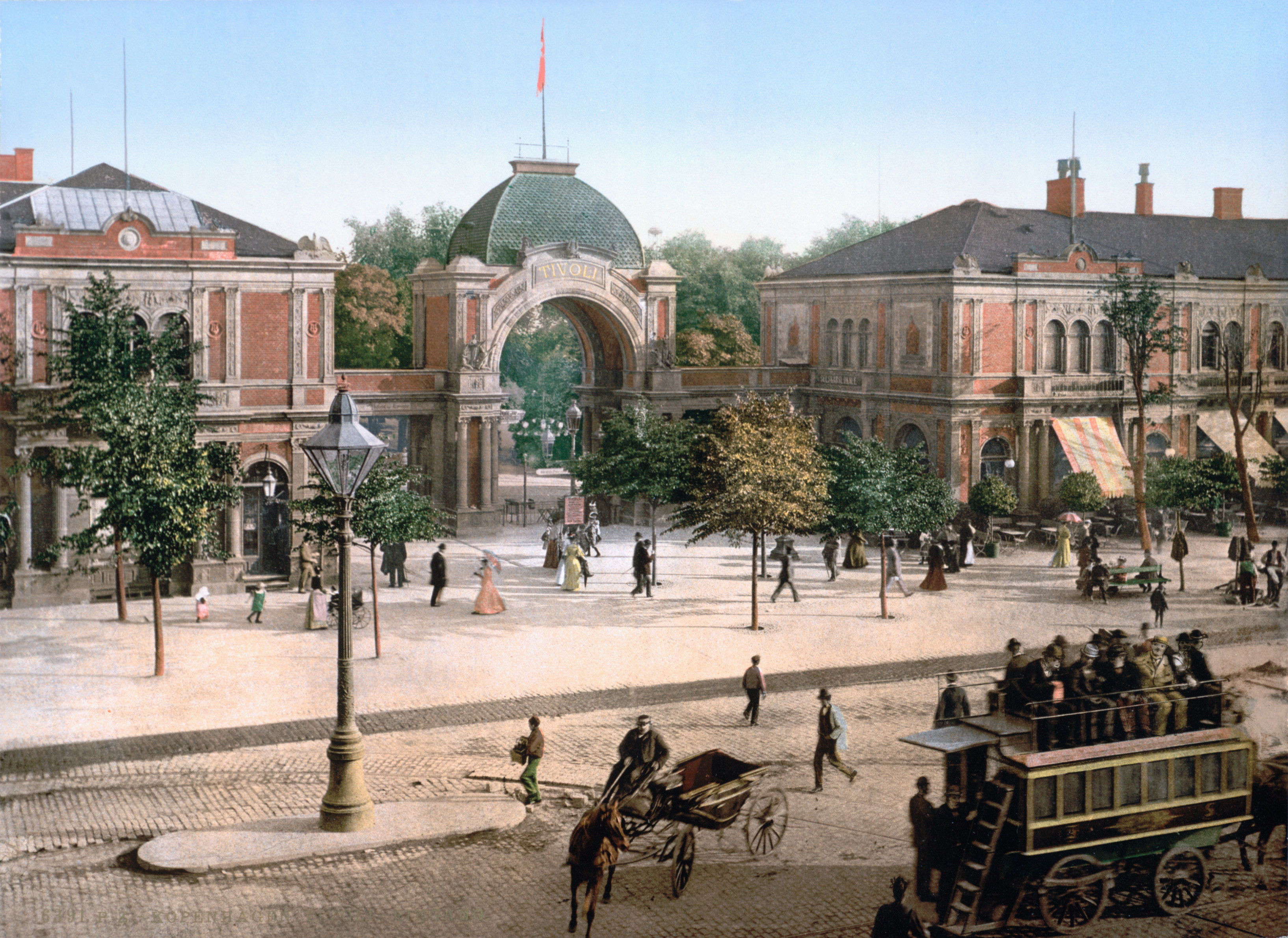 The Tivoli park entrance, Copenhagen, Denmark - between ca. 1890 and ca. 1900.